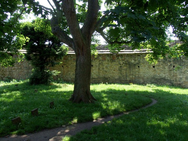 Lincoln Castle, Lincoln Lucy Tower, 2 of 3 - The original motte of the Castle and surmounted by the Medieval 15-sided Keep. It was named after the mother of a 12th century owner, Lucy, Countess of Chester. This shows the grounds within the Keep. The gravestones mark the burial of prisoners who were executed in the Castle in Victorian times.